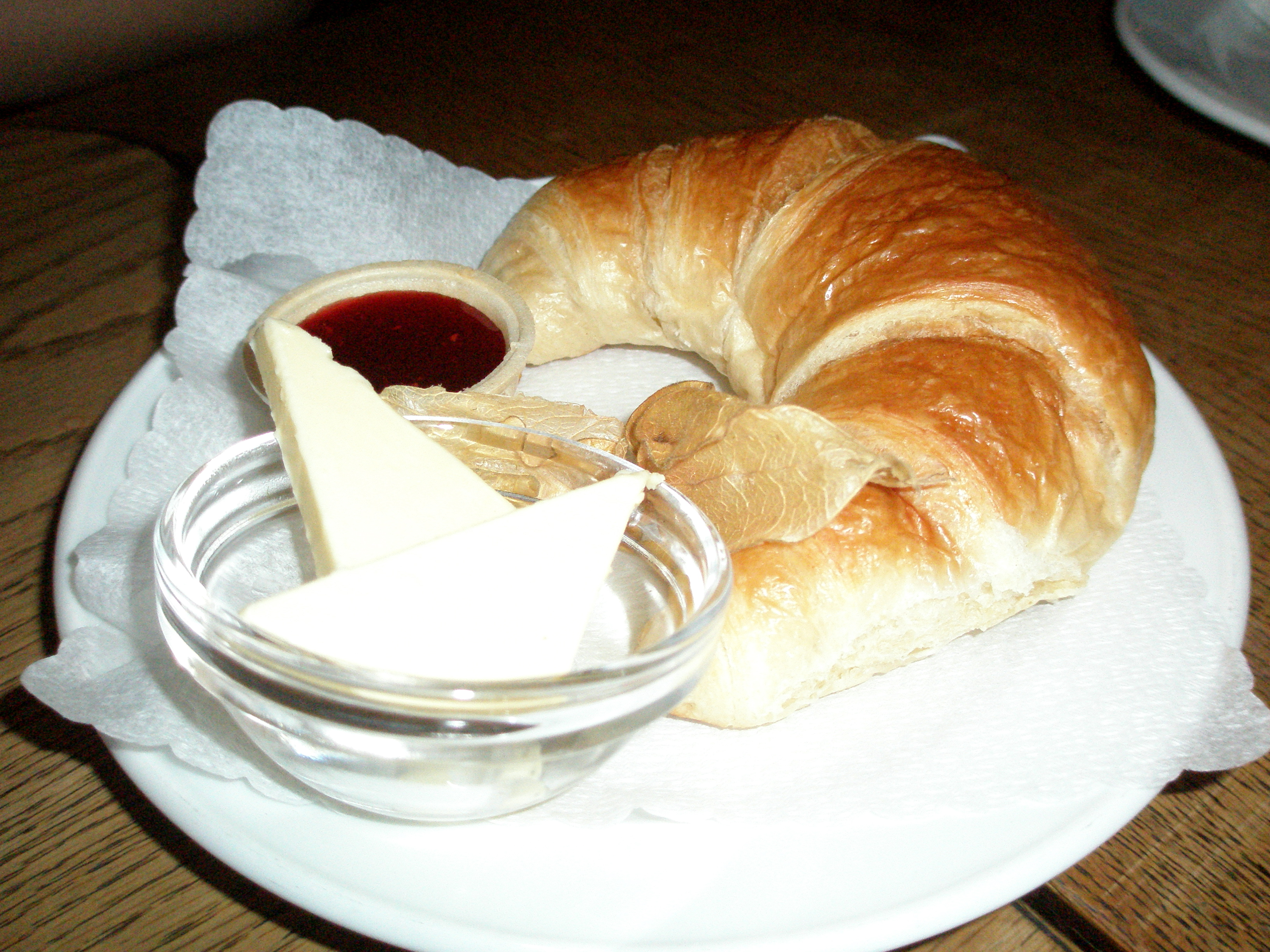 French Croissant